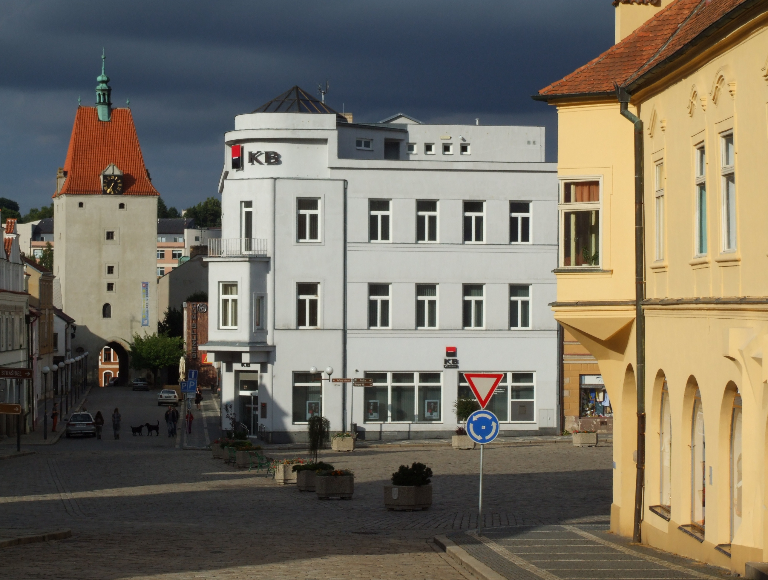 Pelhřimov (Pilgrams) - square Masarykovo náměstí and tower Lower (Jihlava) Gatehouse (Dolní - Jihlavská - brána)